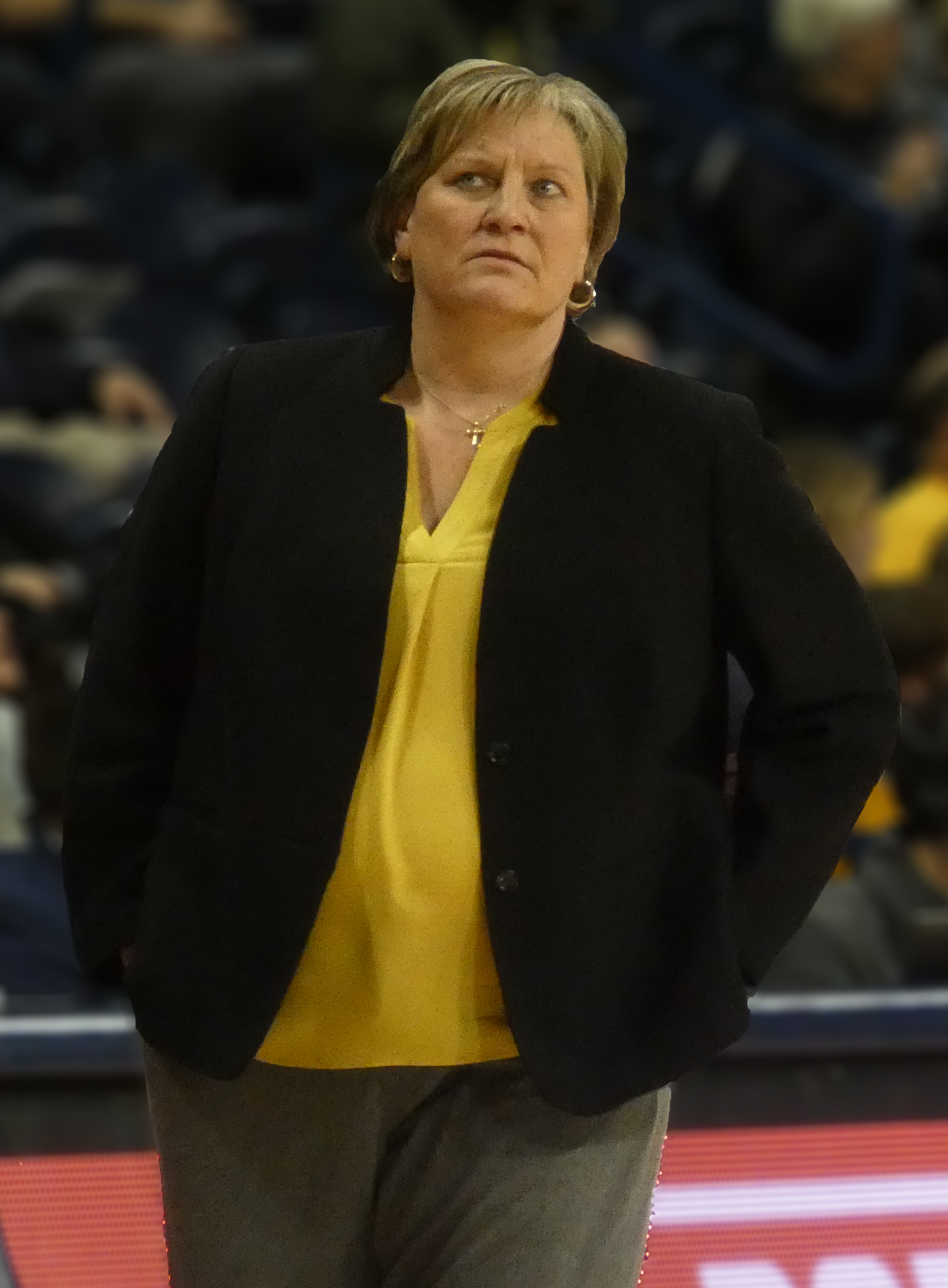 Tricia Cullop, head coach for the Toledo Rockets Women's Basketball team.